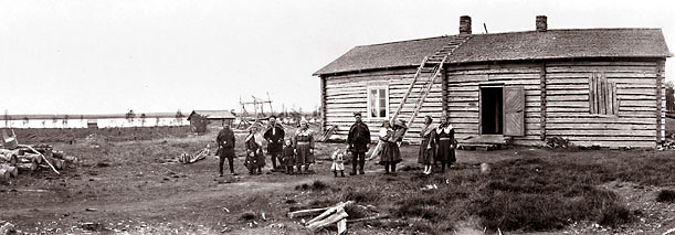 Kurujärvi village in Sompio